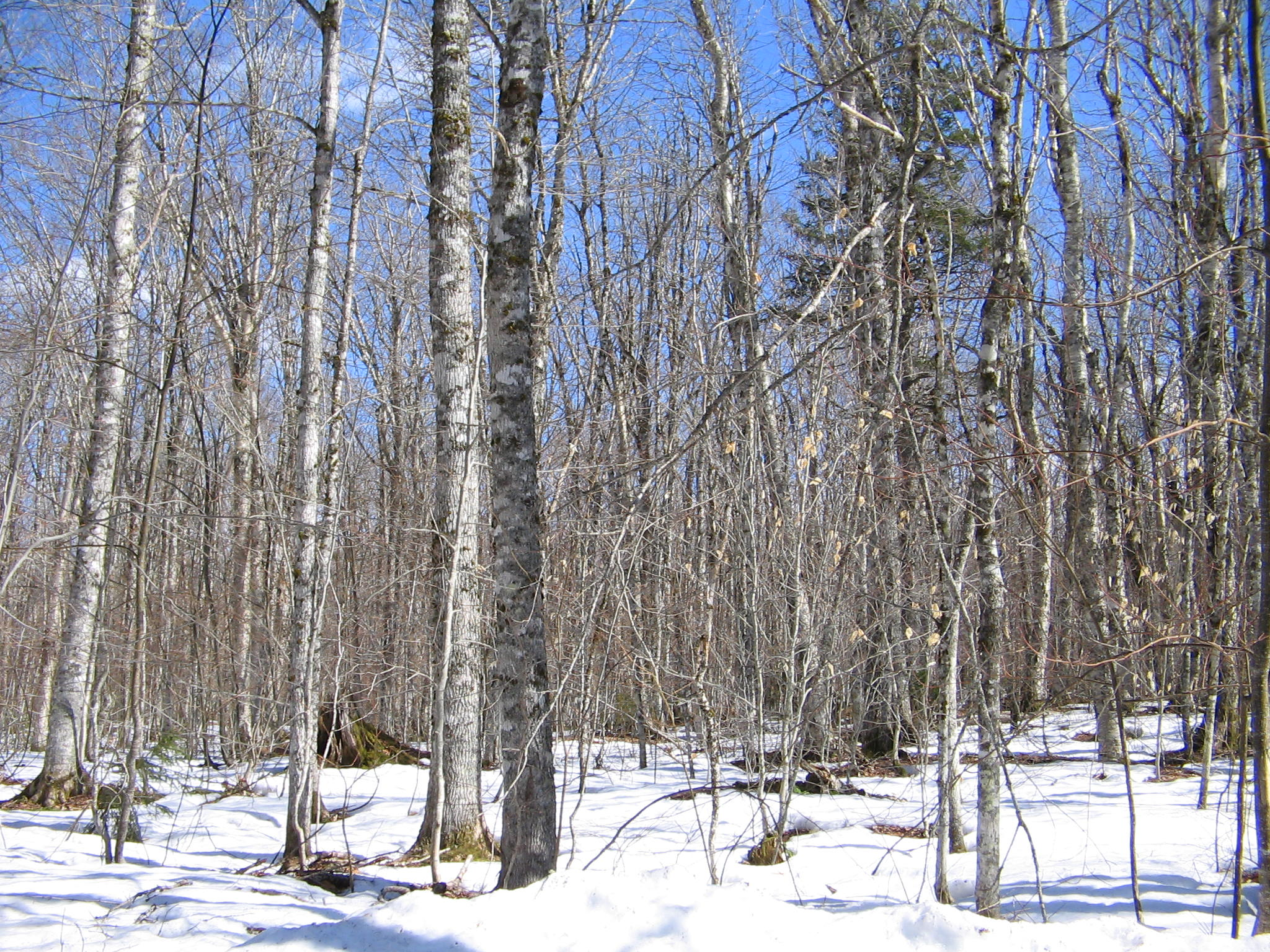 A forest, seen from an outside view, during late winter. Photographed by Oven Fresh.